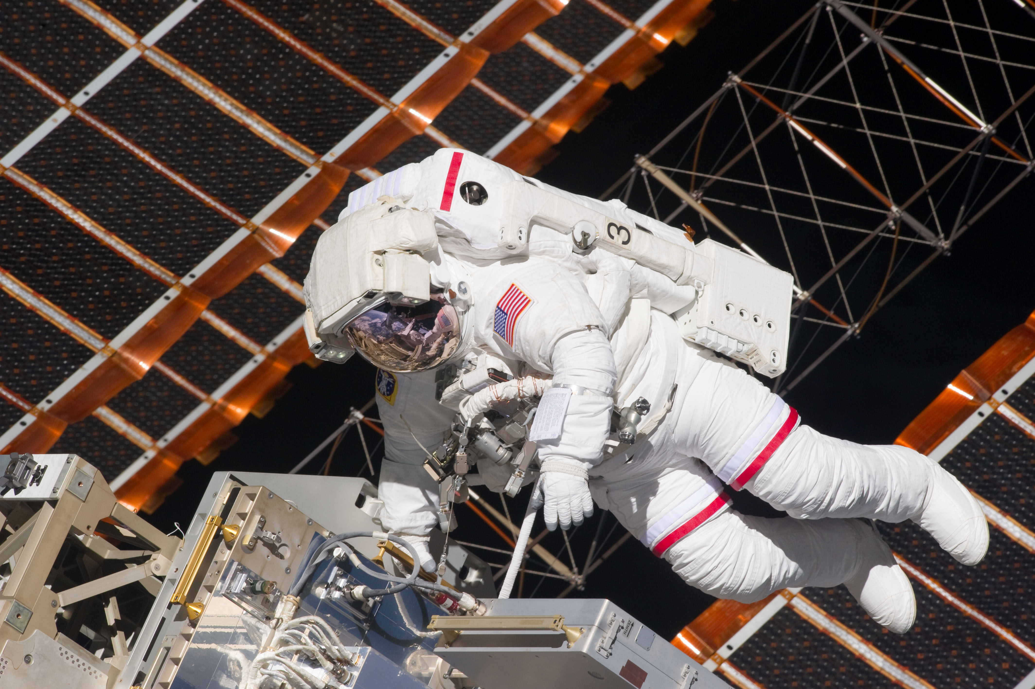 NASA astronaut Andrew Feustel, STS-134 mission specialist, participates in the mission's first session of extravehicular activity (EVA) as construction and maintenance continue on the International Space Station. During the six-hour, 19-minute spacewalk, Feustel and astronaut Greg Chamitoff (out of fame) retrieved long-duration materials exposure experiments and installed another, installed a light on one of the station's rail line handcarts, made preparations for adding ammonia to a cooling loop and installed an antenna for the External Wireless Communication system.